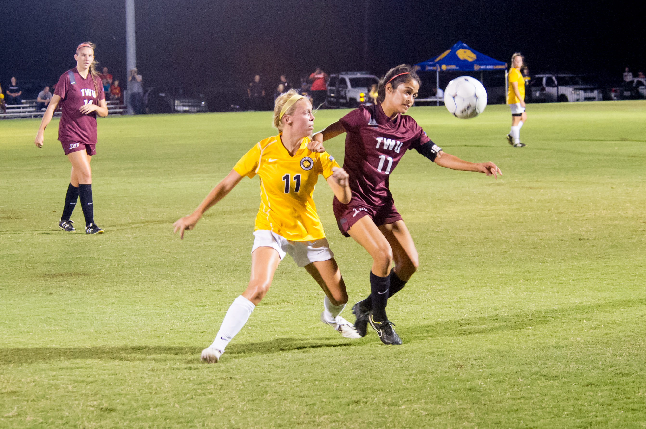 Athletics-Soccer vs TWU-4689.jpg 2014–15 Texas A&M–Commerce Lions women's soccer team